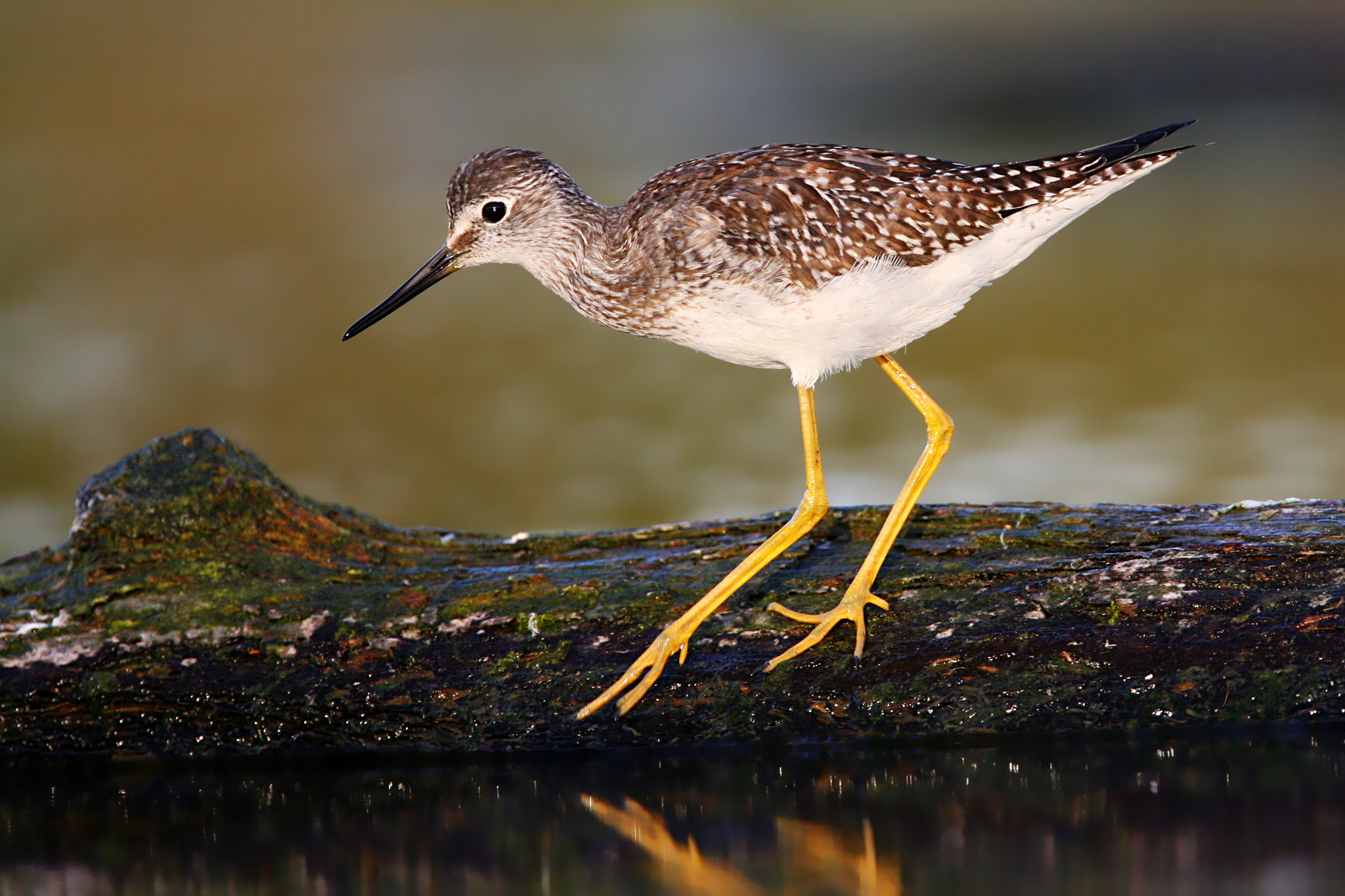 A Lesser Yellowlegs (Tringa Flavipes).